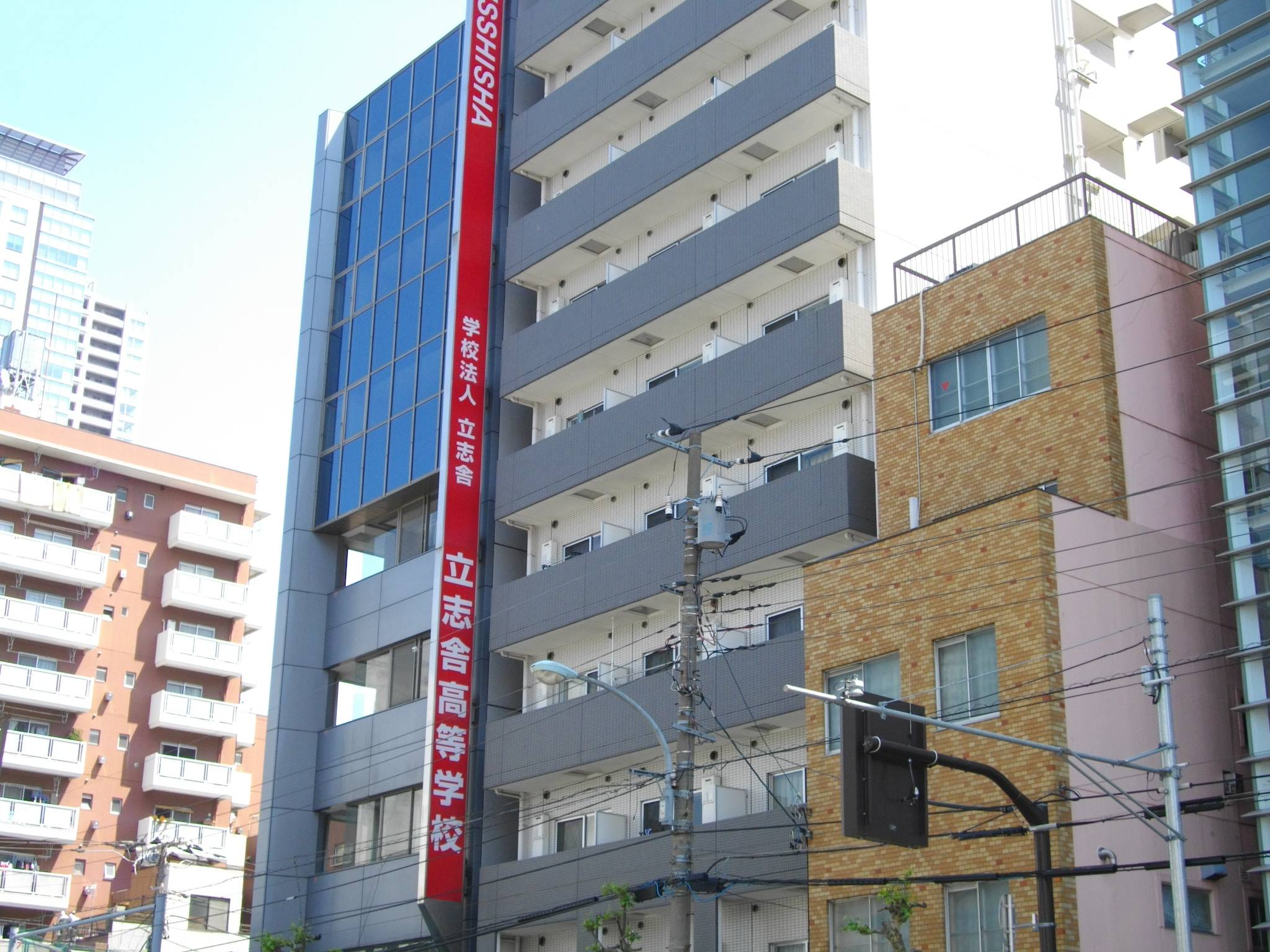 Risshisha High School